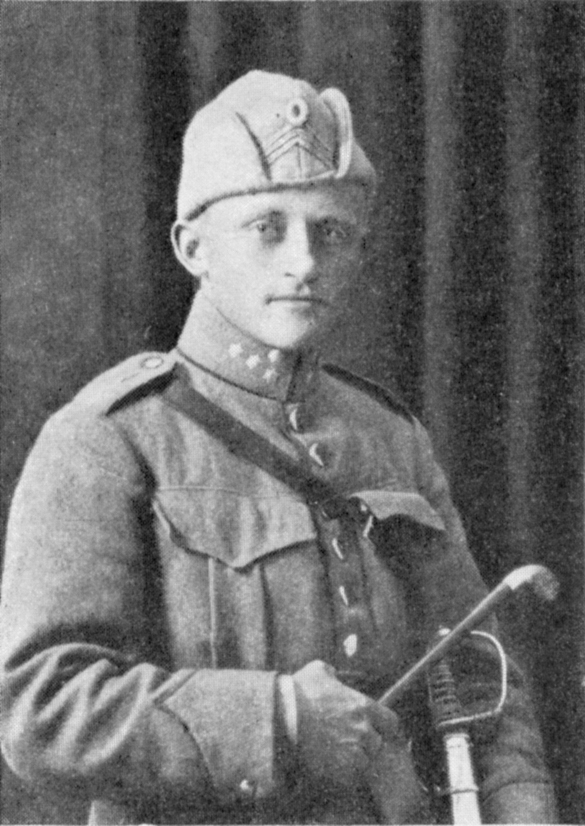 Richard Gustav Borgelin, the commander of Danish volunteers in the Estonian War of Independence, the author of Baltikum kæmper and Det befriade Balticum